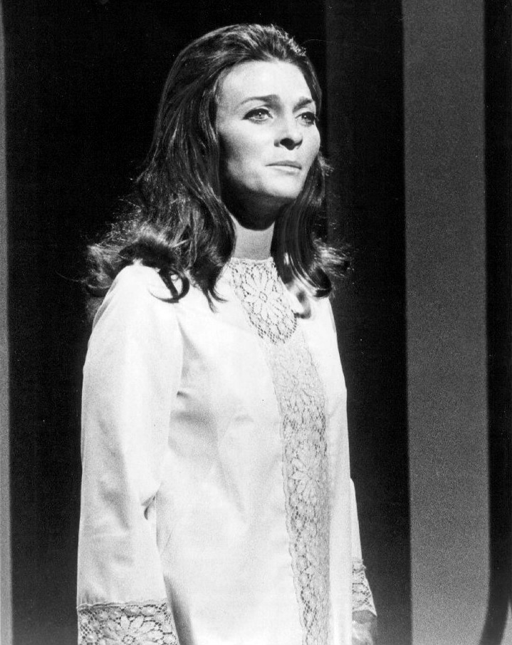 Judy Collins performs a solo on the Smothers Brothers television program.